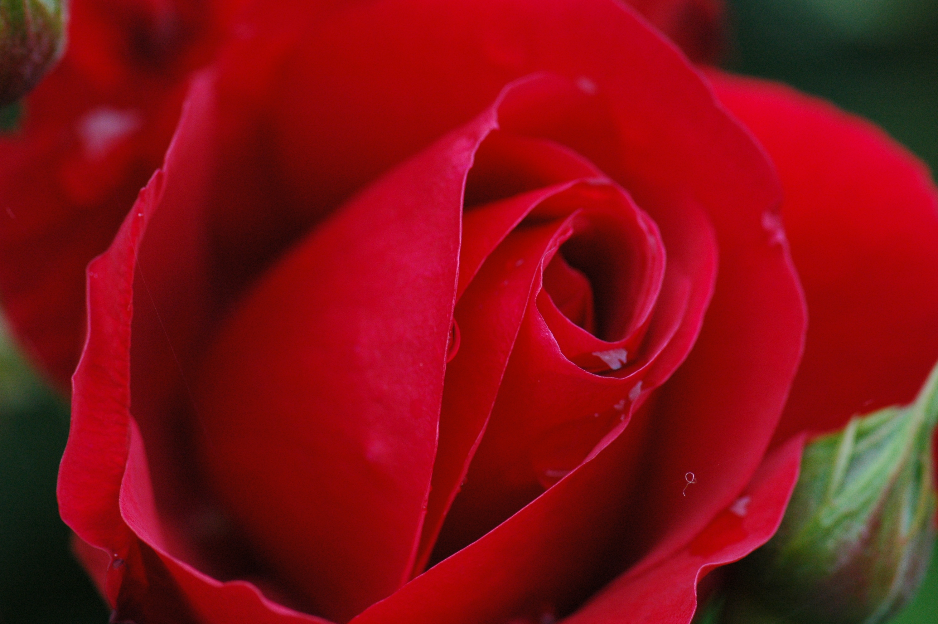 Rose